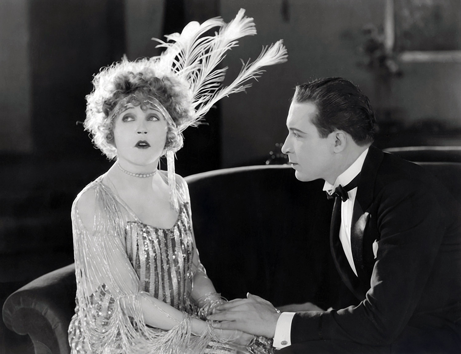 Mae Murray and Monte Blue in the Robert Z. Leonard's silent film Broadway Rose (1922).